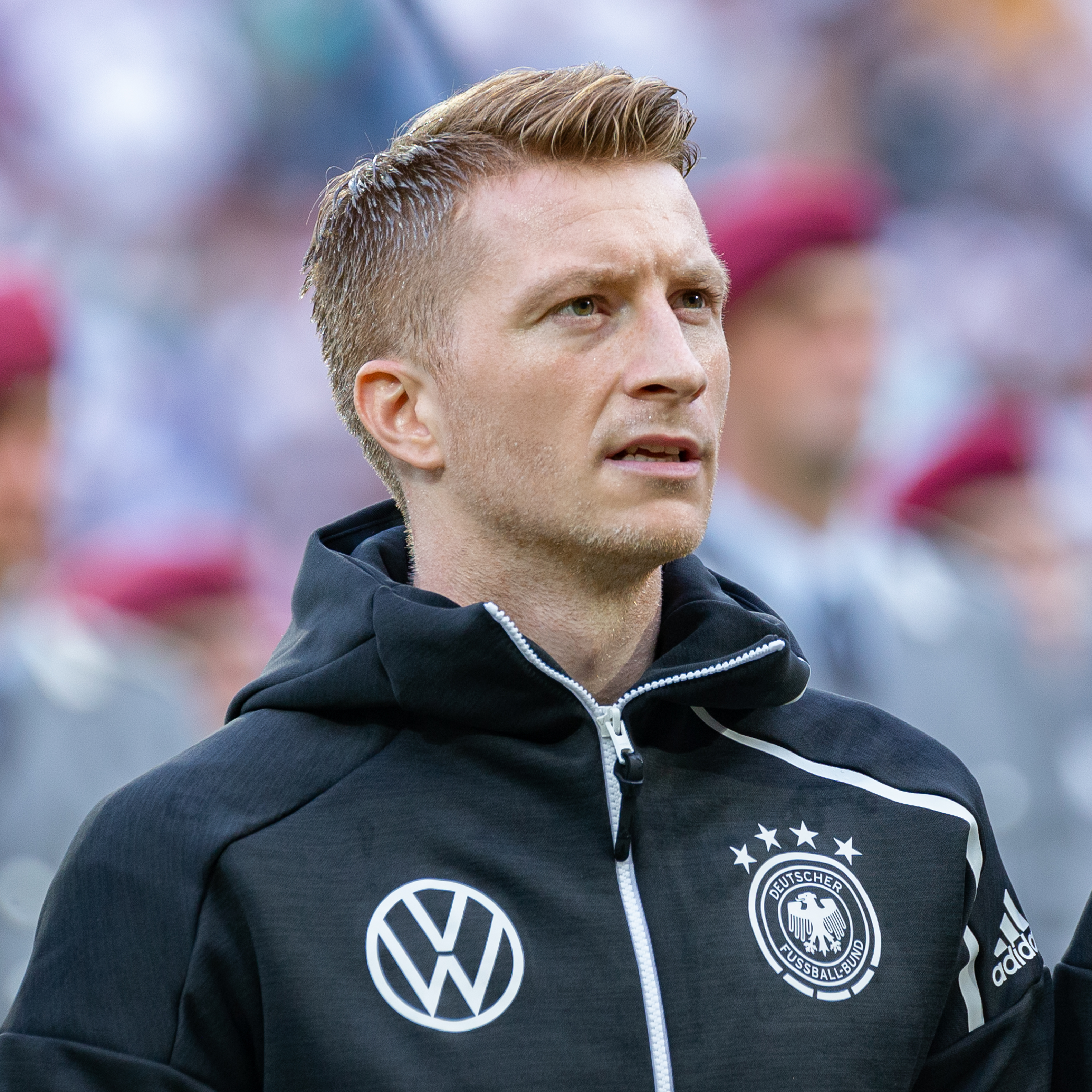 UEFA Euro 2020 qualifier Germany-Estonia